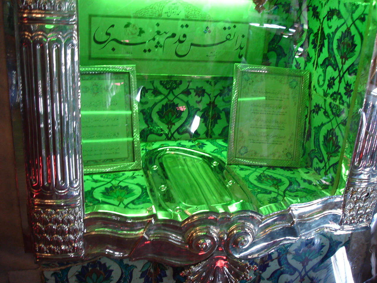 Istanbul - A footprint by prophet Muhammad impressed by miracle in stone, preserved in the türbe (funerary mausoleum) in Eyüp. - Picture by: Giovanni Dall'Orto, May 30 2006.